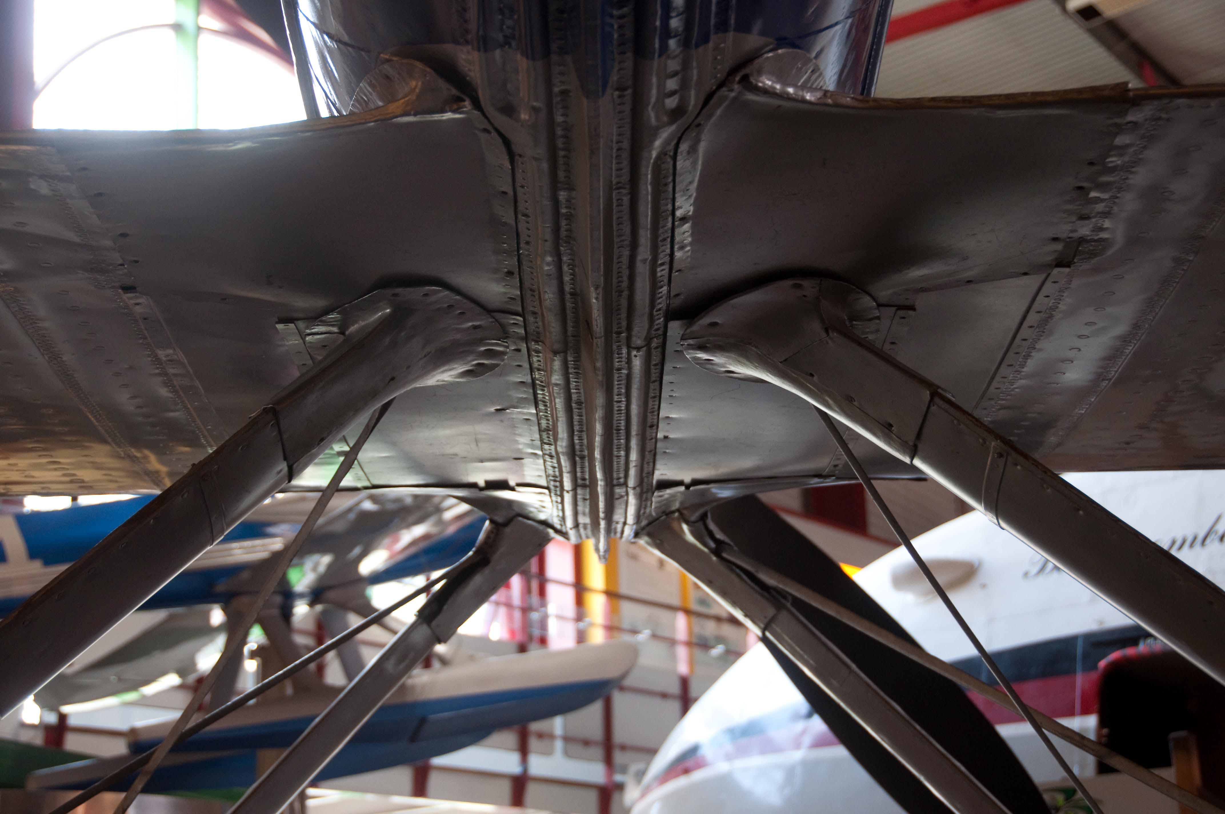 Some details of S.6A. Solent Sky Museum 2013